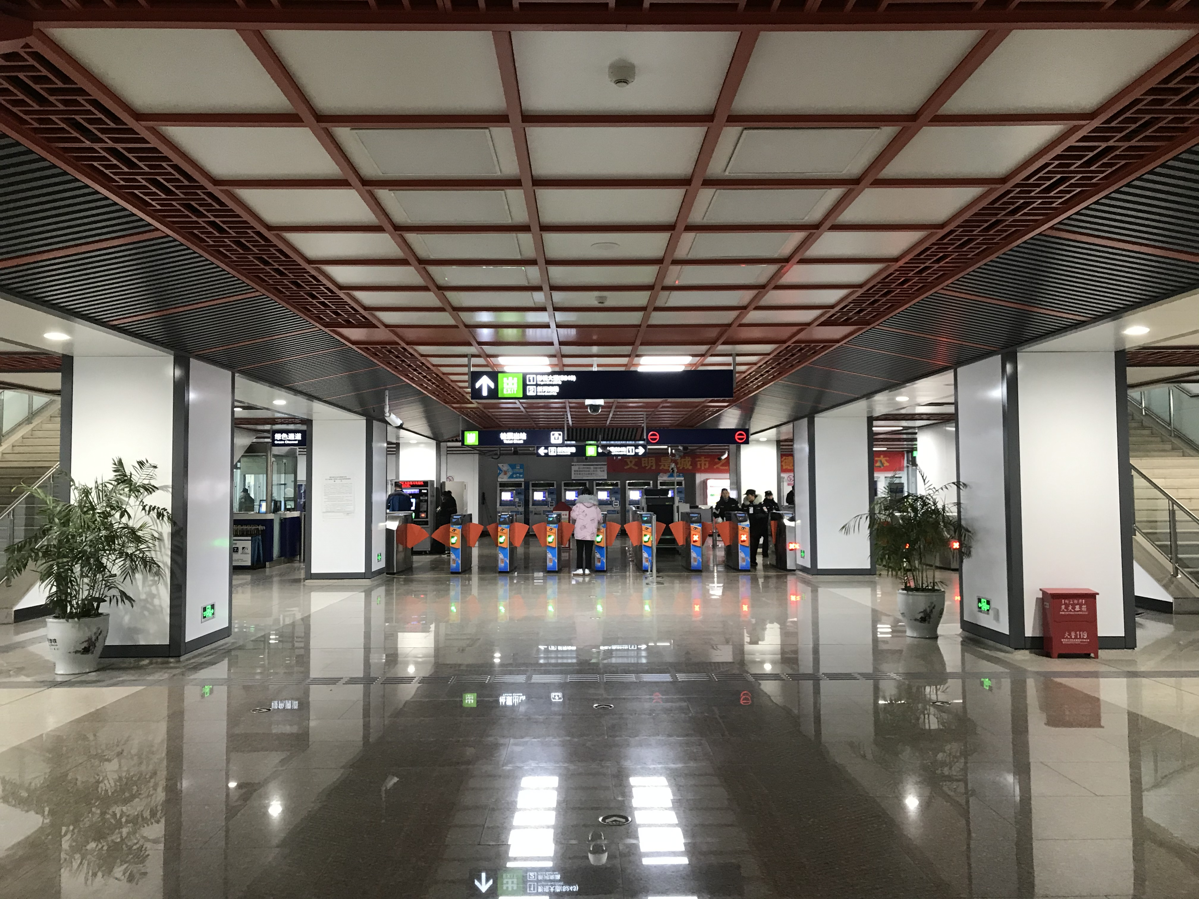 201912 Concourse of Shiqiu Station